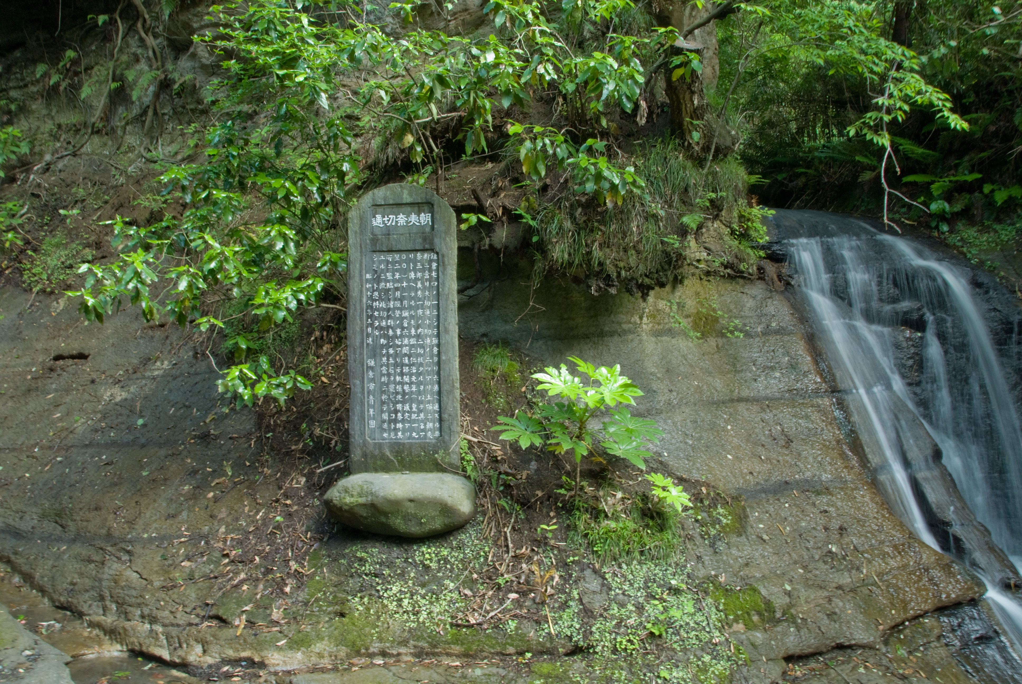 The stele at the Asahina (or Asaina) Pass, Kamakura side, and the Saburo Falls, named like the passafter superhuman hero Asaina Saburo Yoshihide.